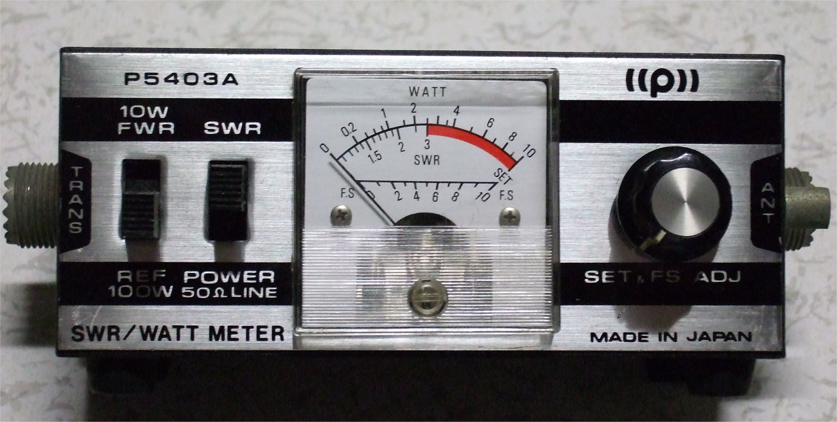 An SWR & power meter (front view).